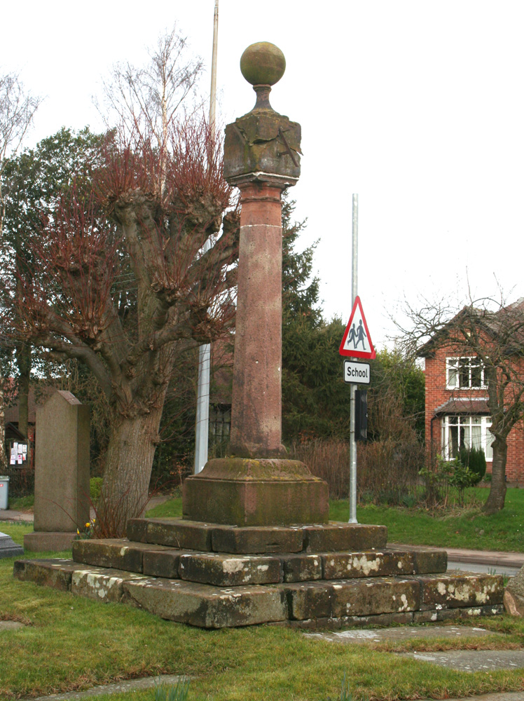 Sundial in St Mary's parish churchyard, Acton, Cheshire